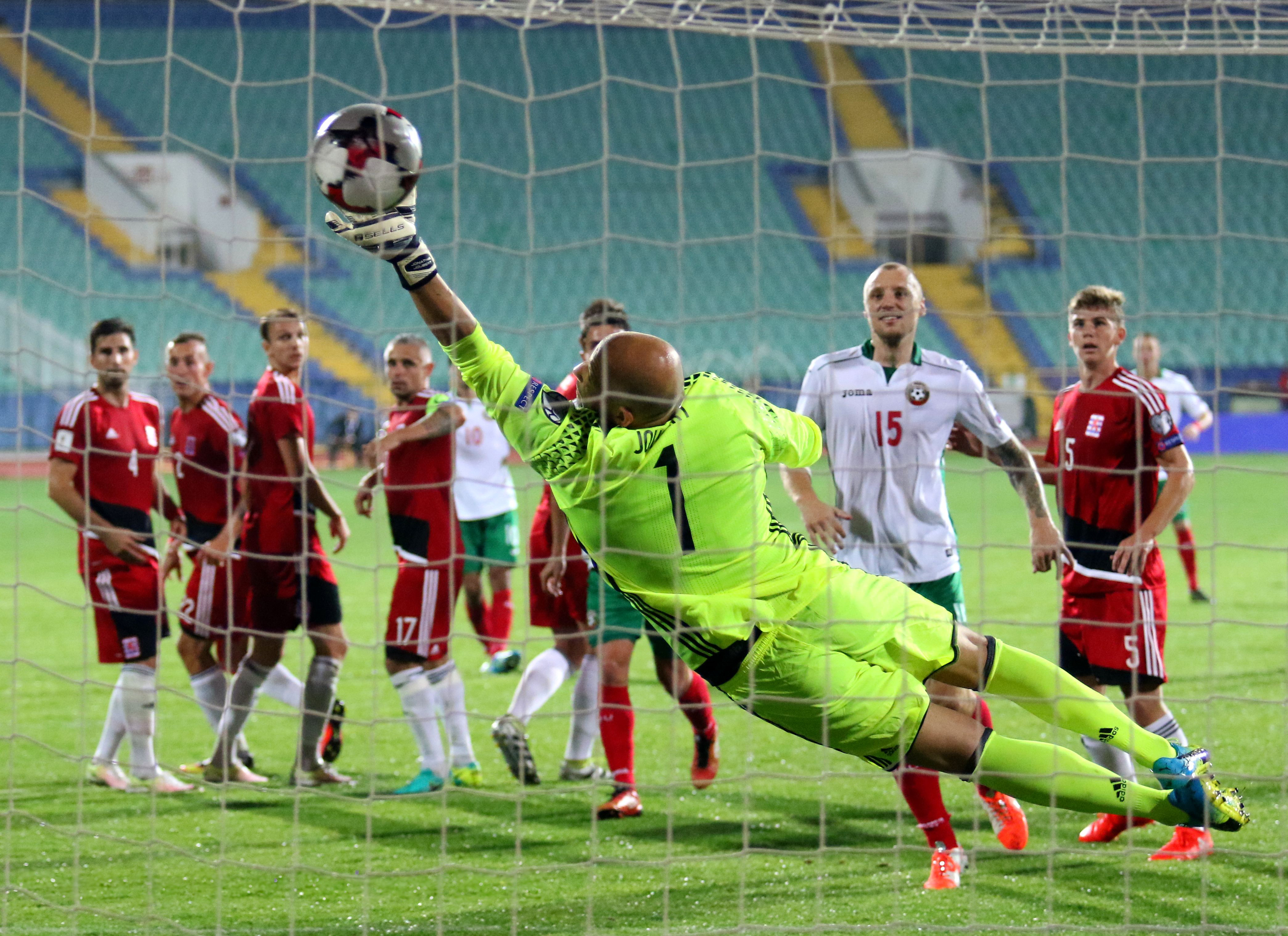 Jonathan Joubert (born 12 September 1979) is a French-born Luxembourgian football player, who currently plays for F91 Dudelange.